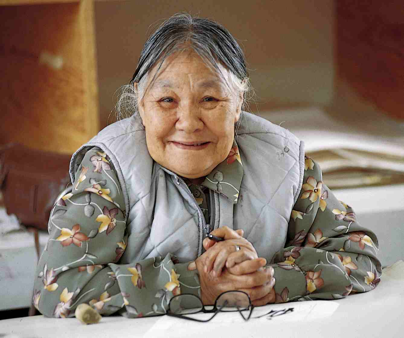 Kenojuak Ashevak while drawing in the litho-shop of Est Baffin Eskimo Co-operative (Cape Dorset, Nunavut, Canada)